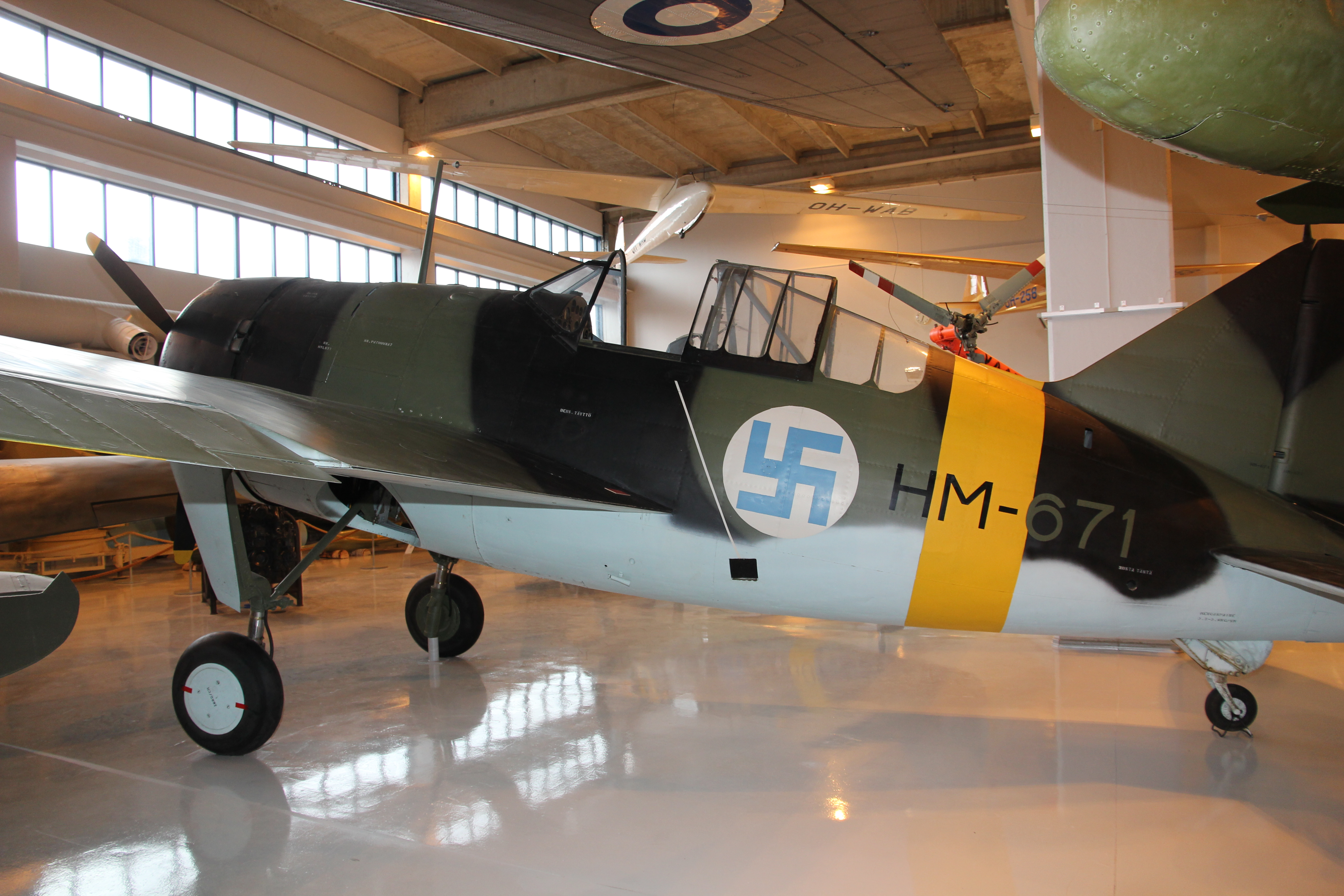 VL Humu prototype HM-671 in the Aviation Museum of Central Finland.